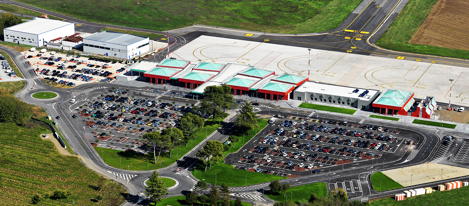 Photo by Paolo Ficola